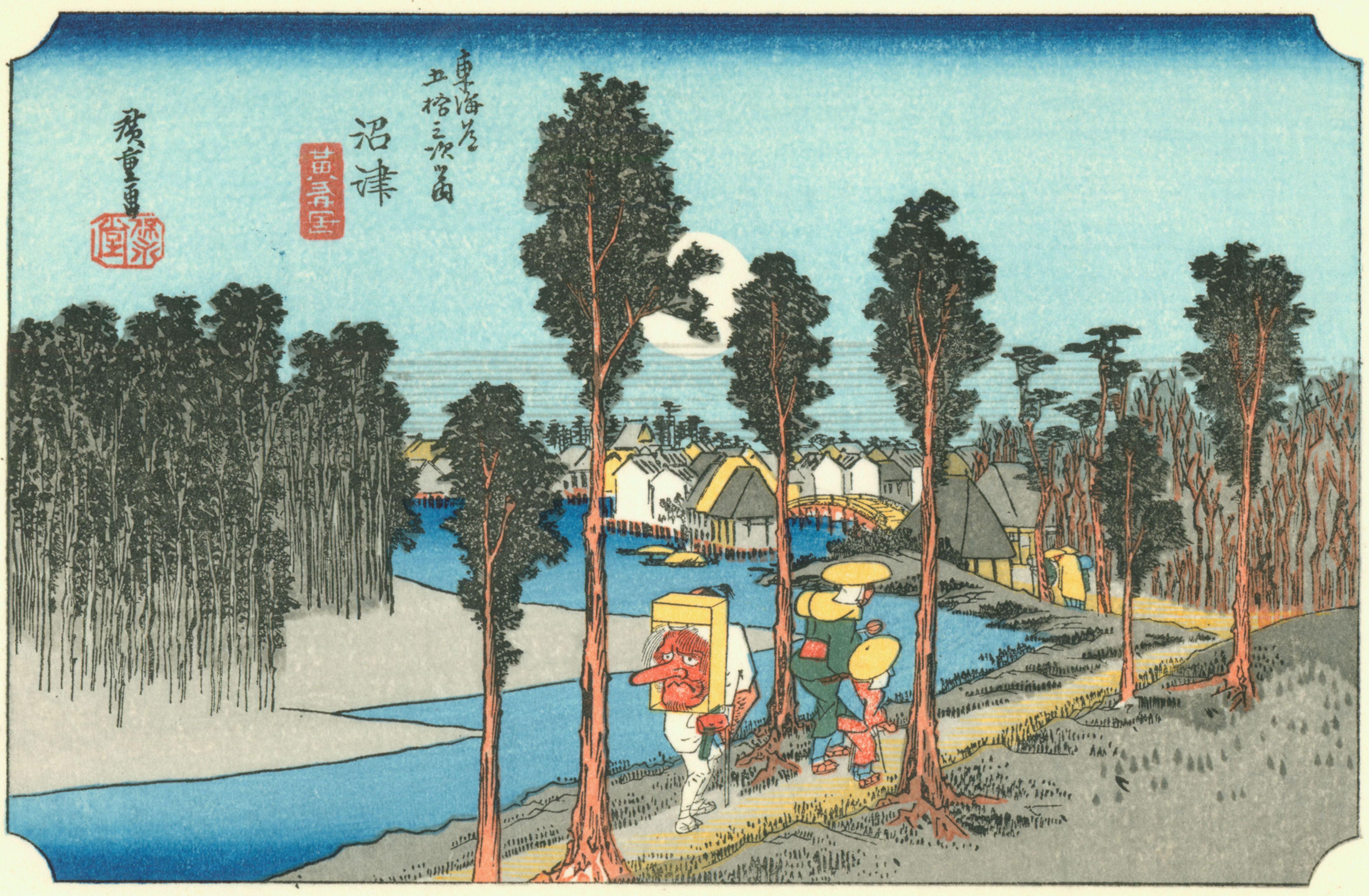 wood-block print, reproduction from a miniature edition by Takamizawa, Japan Title: Numazu